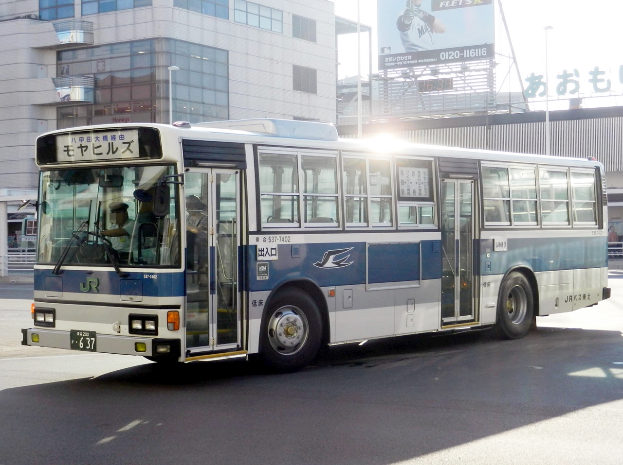 JR bus Tokoku (Aomori branch) Hino Blue Ribbon (KC-HT2MMCA)